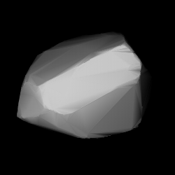 3D convex shape model of 526 Jena, computed using light curve inversion techniques. J. Hanuš, J. Ďurech, M. Brož, B. D. Warner (June 2011). "A study of asteroid pole-latitude distribution based on an extended set of shape models derived by the lightcurve inversion method". Astronomy and Astrophysics 530: A134. ISSN 0004-6361. arXiv